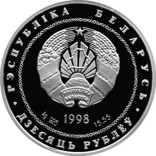 Dedicated to the 200th Annyversary of Adam Mickewich. Silver commemorative coins, denomination: 20 rubles